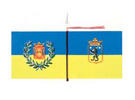 The Colour of Pori Brigade. On the one side of the Colour, there is the coat-of-arms of Finland Proper, on the other side, Satakunta. As an exception to the usual Finnish practice, the point of the staff is a spearhead. The Colour has the ribbons of the Order of the Cross of Liberty, as battle honours of Finnish Civil War